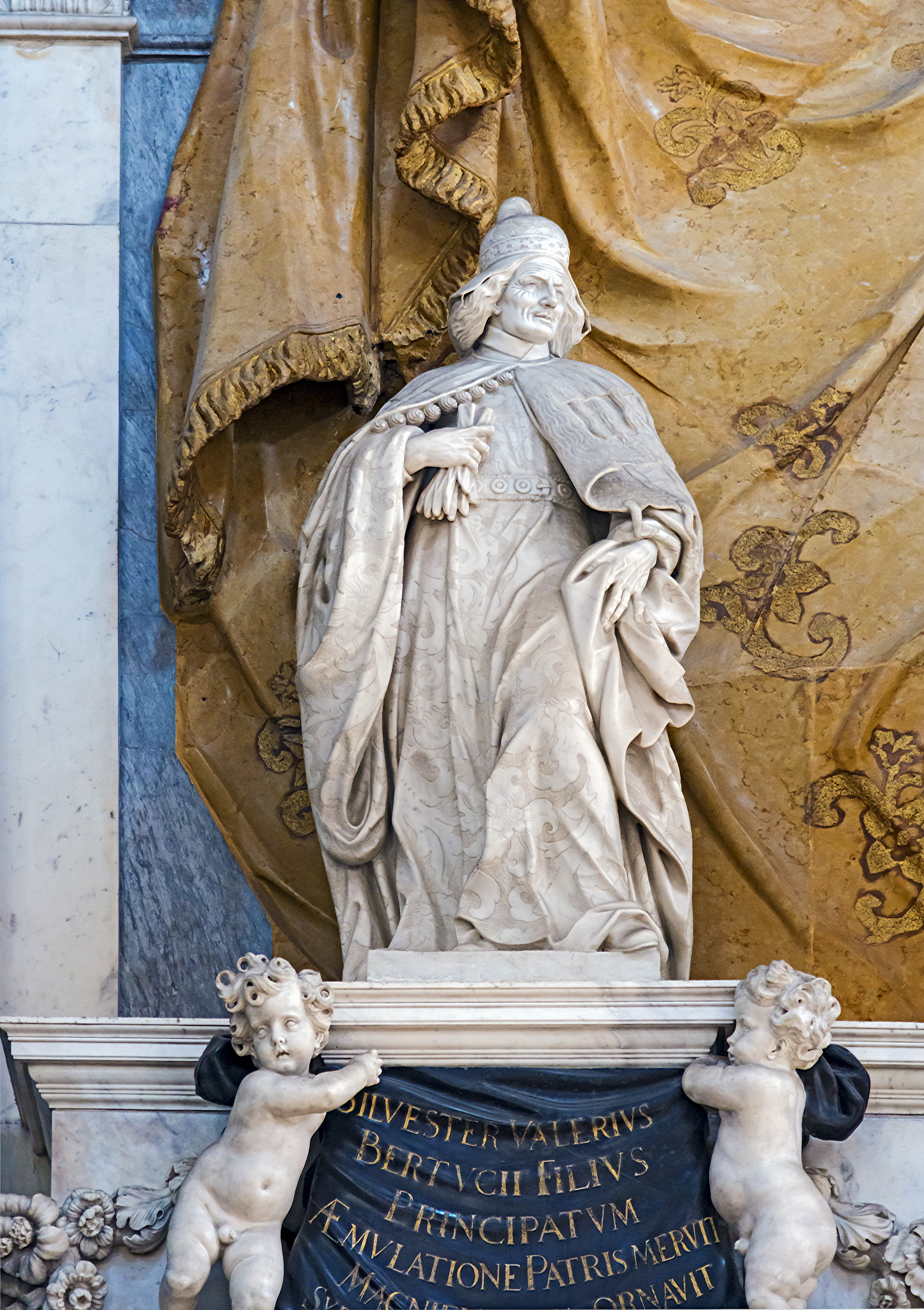 Santi Giovanni e Paolo in Venice, monument of the Valier family : Silvestro Valier by Antonio Tarsia..